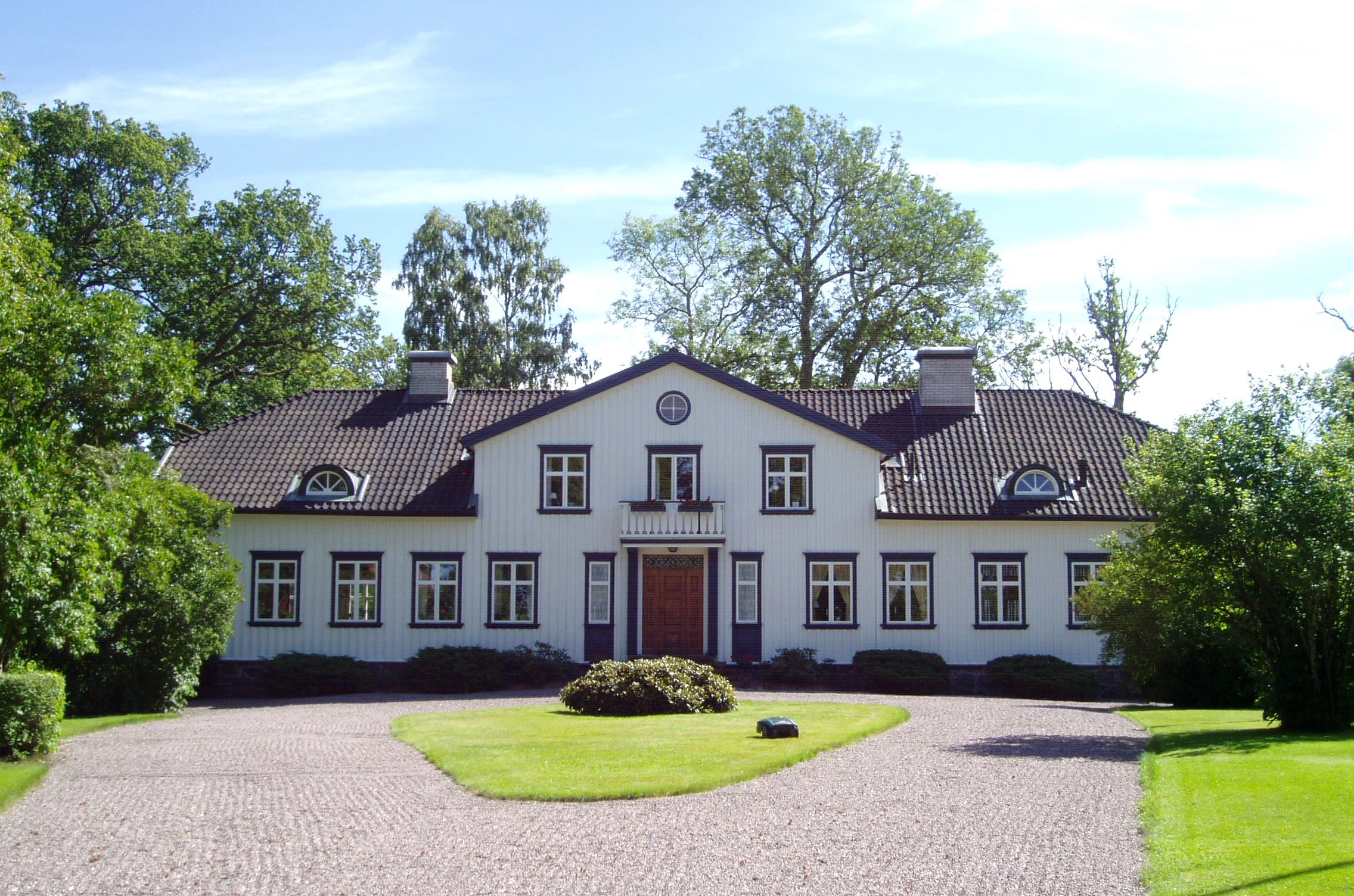 Ribbingstorp mansion, Vara Municipality, Sweden